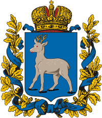 Samara gubernia (Russian empire), coat of arms